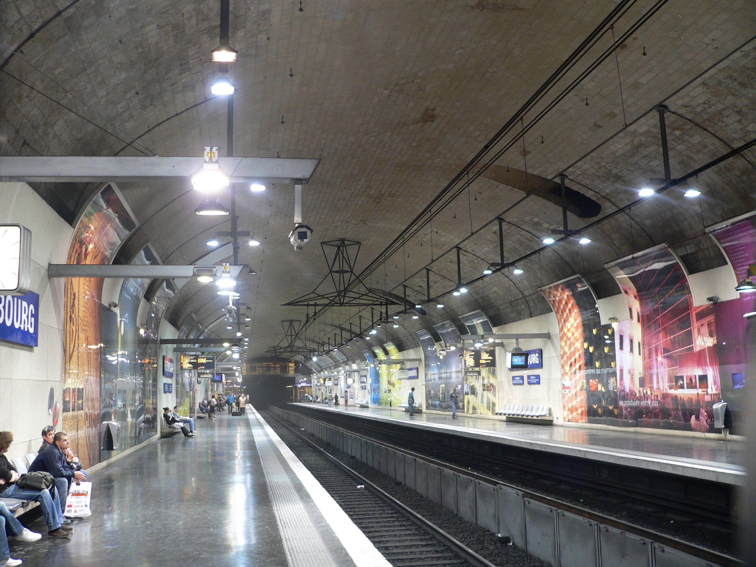 RER B, Luxembourg, looking to the north.